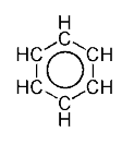 Benzene circle